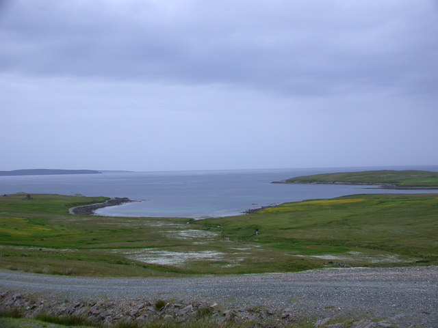 Wick of Gossabrough, Yell The Western edge of the bay is the coastal feature in the foreground. The promontory to the right is the Ness of Gossabrough HU5383. Foreground on the left horizon is the SW end of Fetlar HU6087 and behind that is the SE end of Fetlar HU6587.